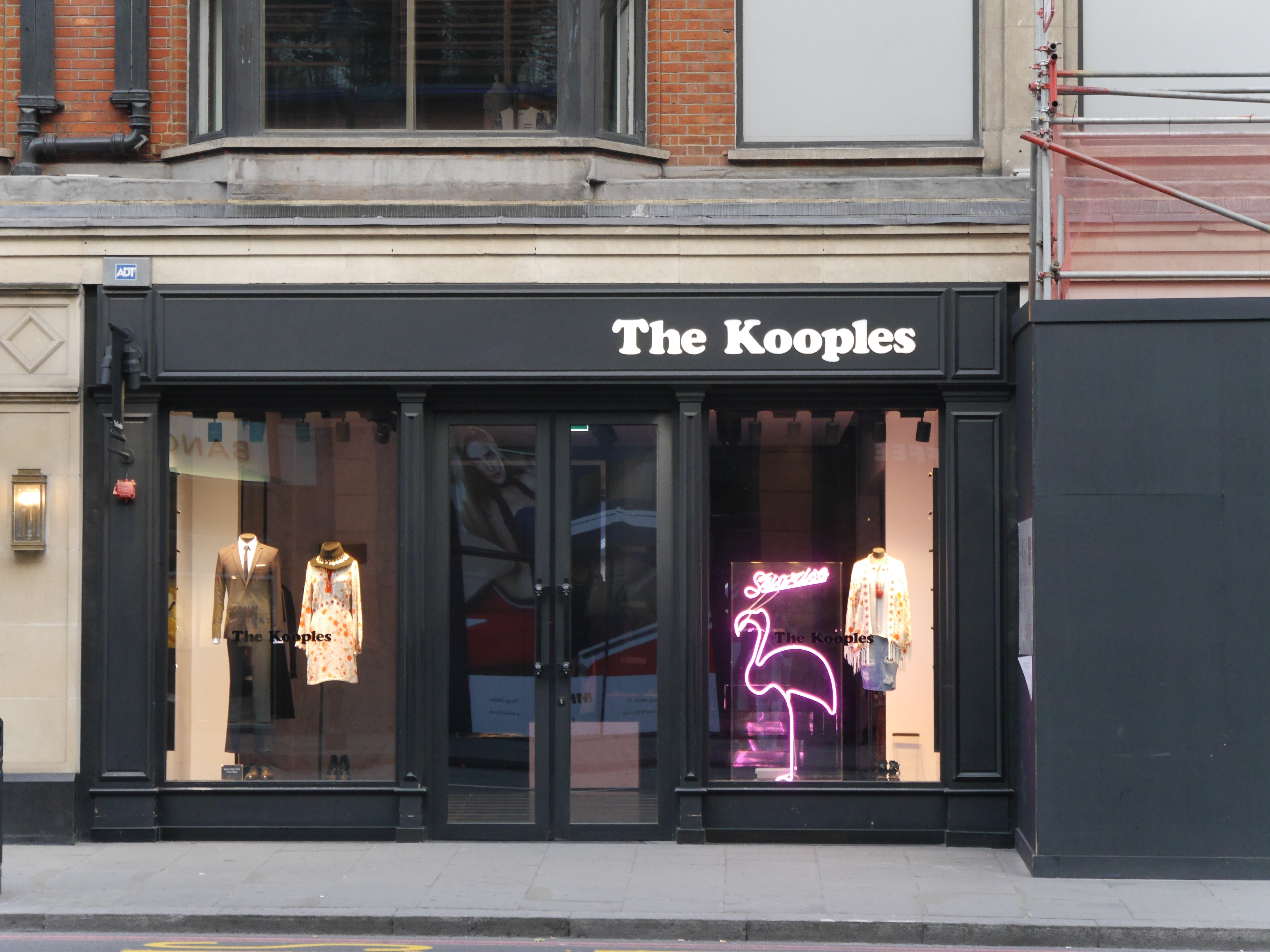 Brompton Road, London, June 2016